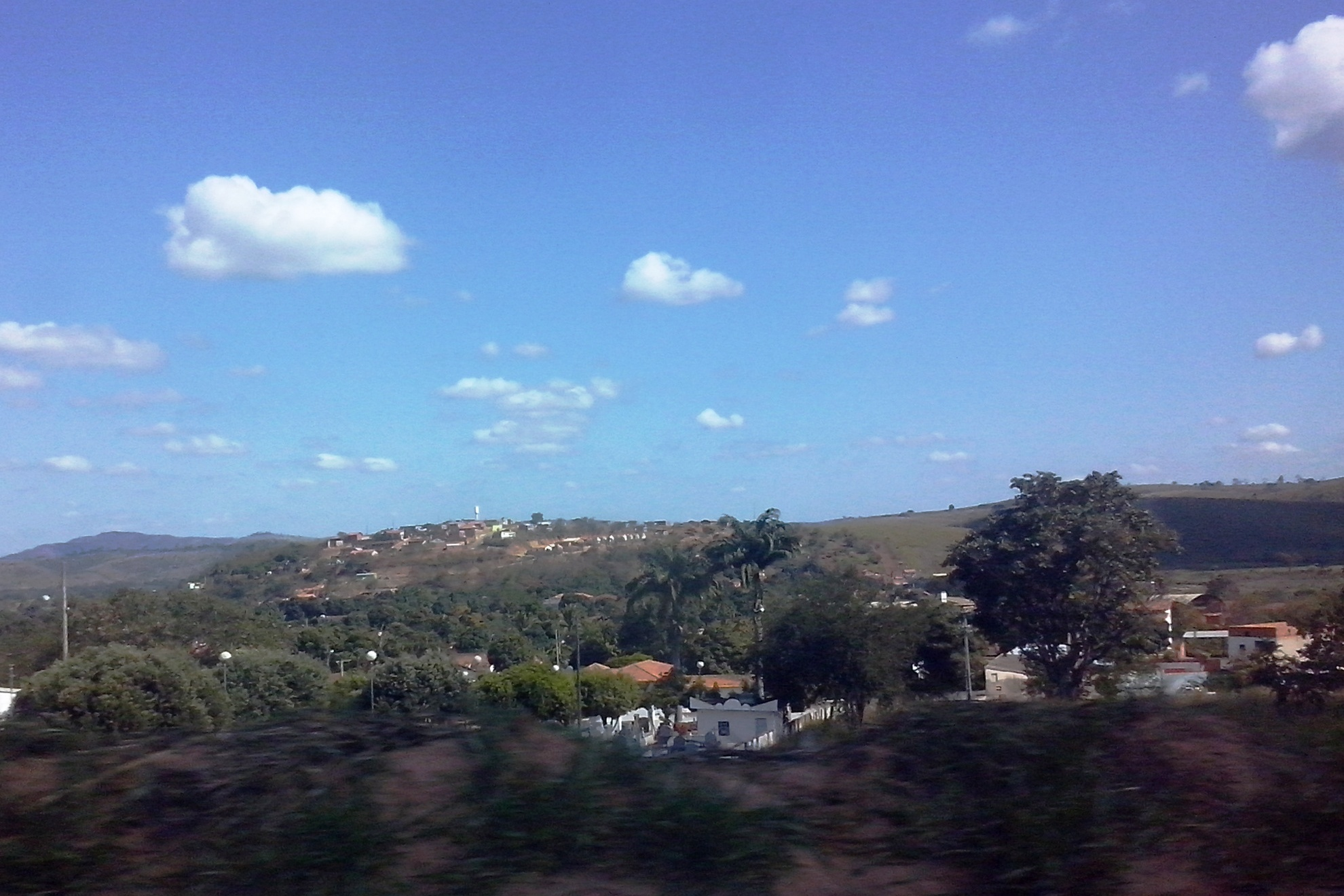 Partial view of Galileia, Minas Gerais, Brazil.